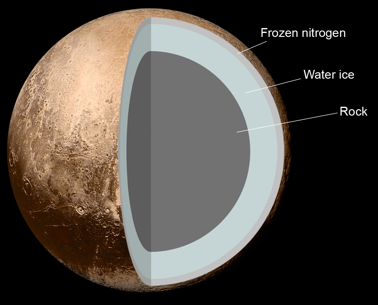 Theoretical structure of Pluto Frozen nitrogen Water ice Rock